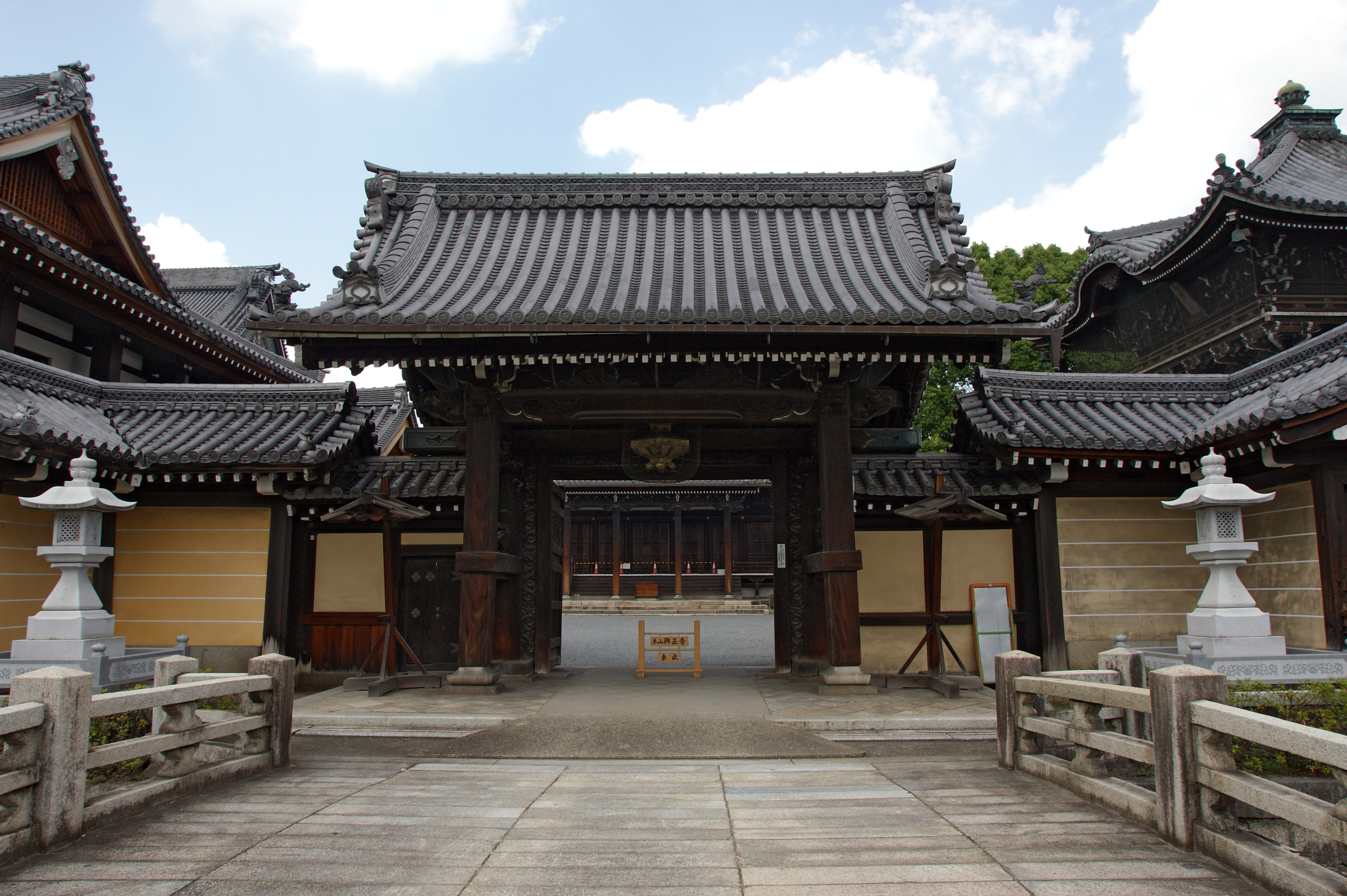 Koshoji in Kyoto, Kyoto prefecture, Japan